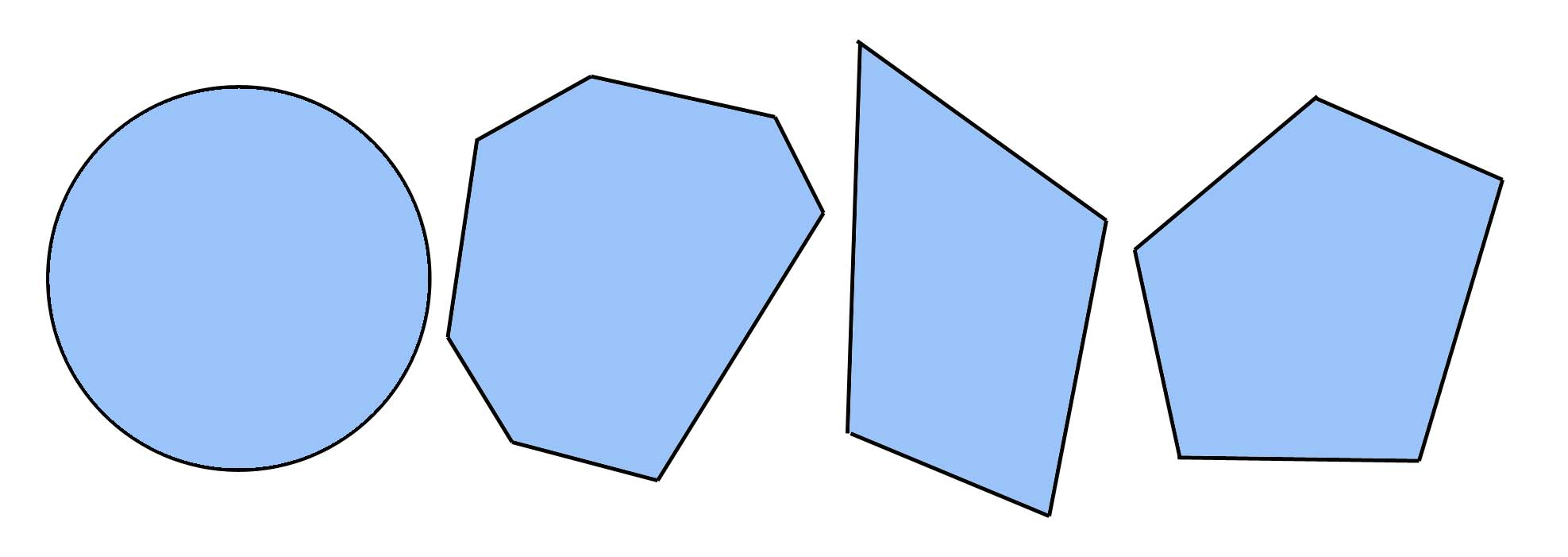 Shapes to illustrated the isoperimetric problem with polygons